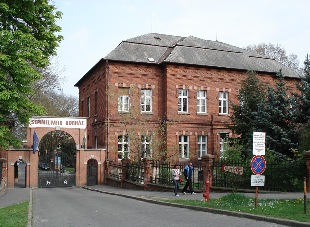 Semmelweis Hospital, main entrance, Miskolc, Hungary